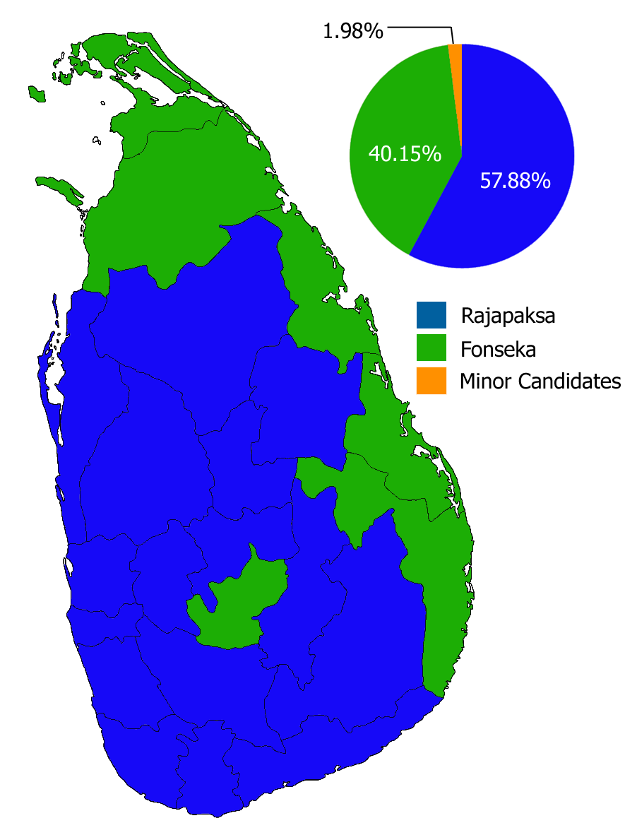 Results of the Sri Lankan presidential election, 2010. Blue denotes districts won by Mahinda Rajapaksa, and Green denotes those won by Sarath Fonseka. Ref and